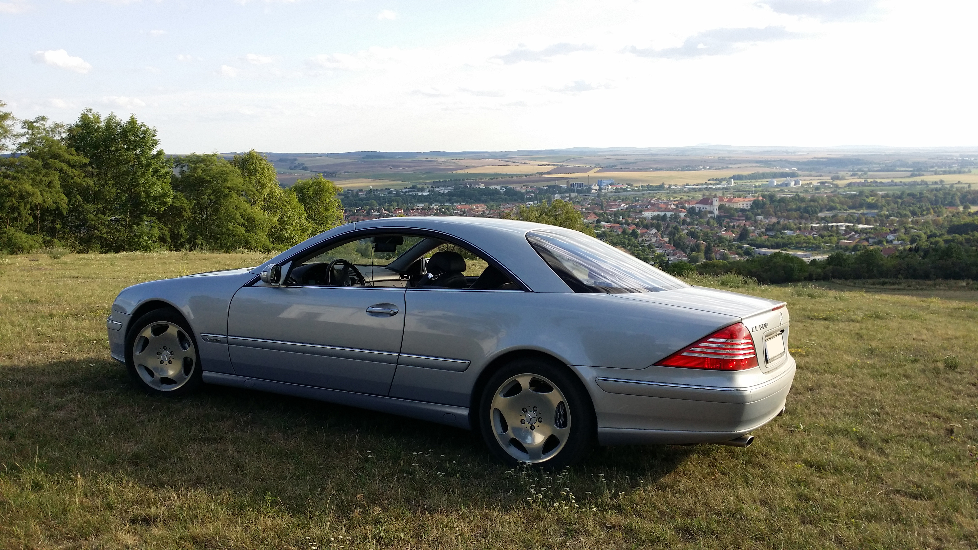 Mercedes-Benz CL 600 2003, color chalcedony blue; photographed in Czech, on hill above Austerlitz